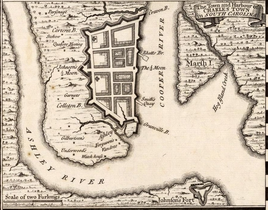 A 1733 map of Charleston, South Carolina; map is an inset from a larger map of North America.